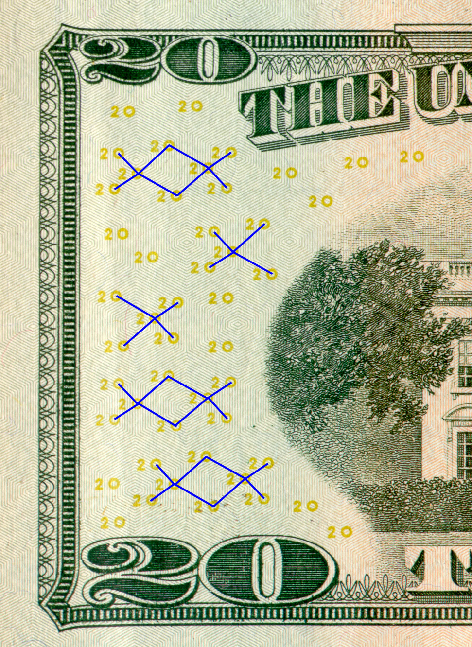 The blue lines outline the shape of the EURion constellation. These patterns are what are used by photocopiers and image editing programs to identify valid currency.